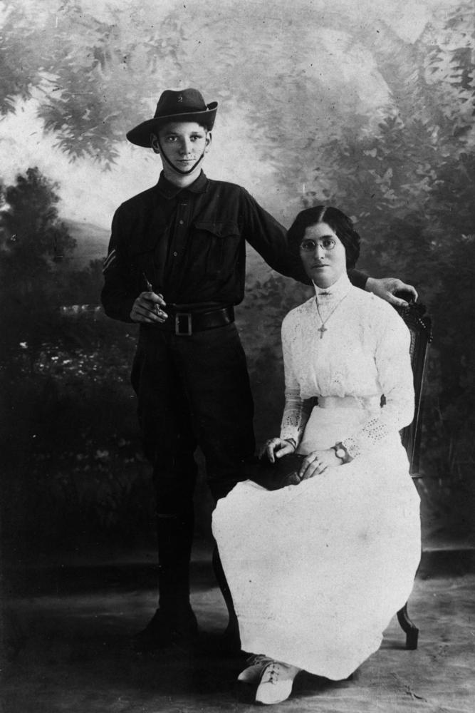 Senior Cadet Tom Aikens, Charters Towers, 1916. Tom Aitkens in Senior Cadet uniform - Prime Minister Fisher's National War Service Scheme.